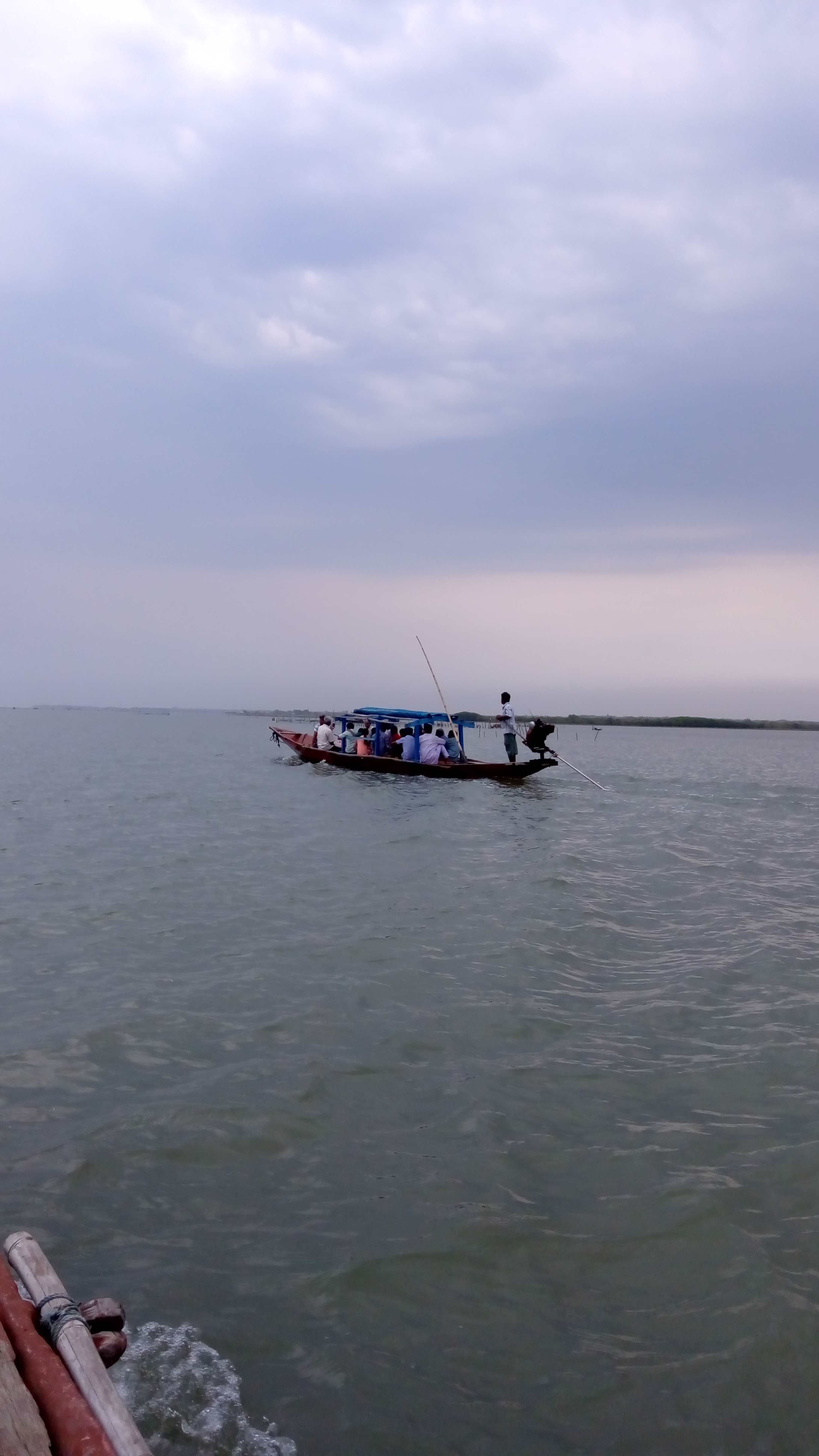 Scenic beauty at Chilka